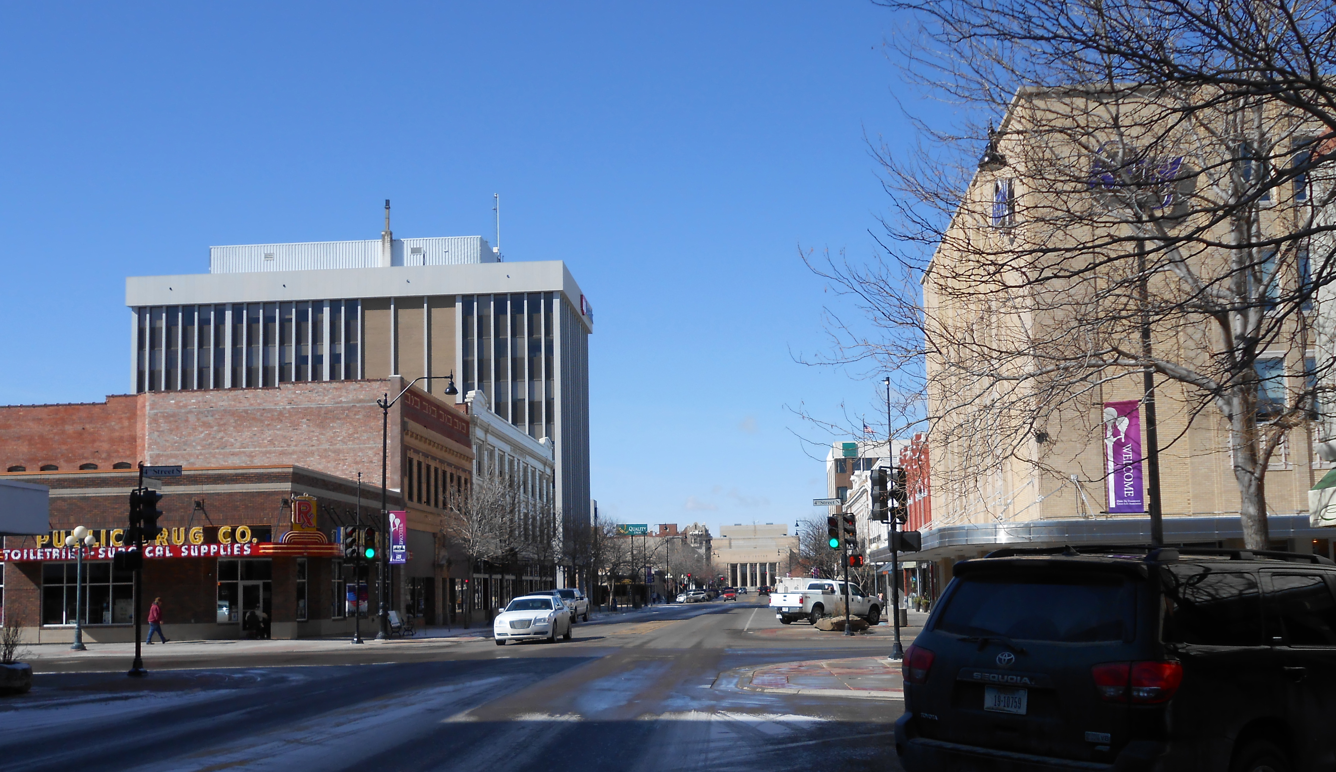 Central Avenue, Great Falls, Montana, looking west from intersection of 4th St. N. Civic Center at end of street, old Paris of Montana department store building (Now housing NEW) visible in image to right. Part of Central Business Historic District